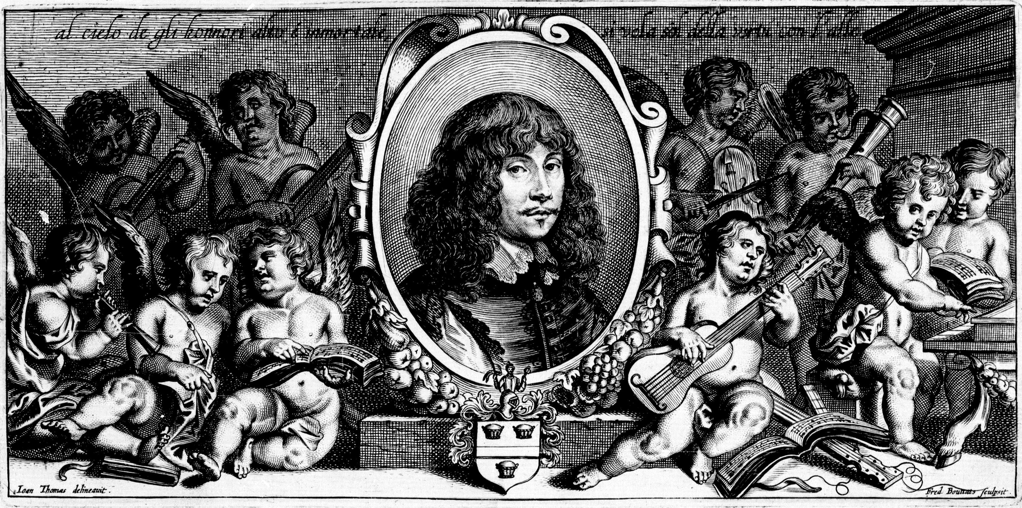 Depicted person: Francesco Corbetta